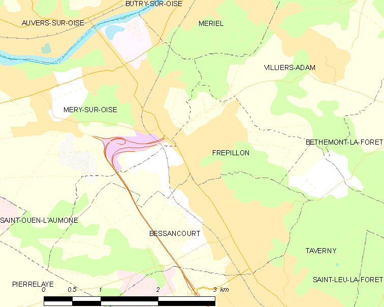 Map of French municipality Frépillon